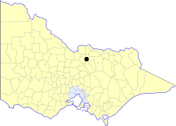 Location of the City of Shepparton (pre-1994) within Victoria.